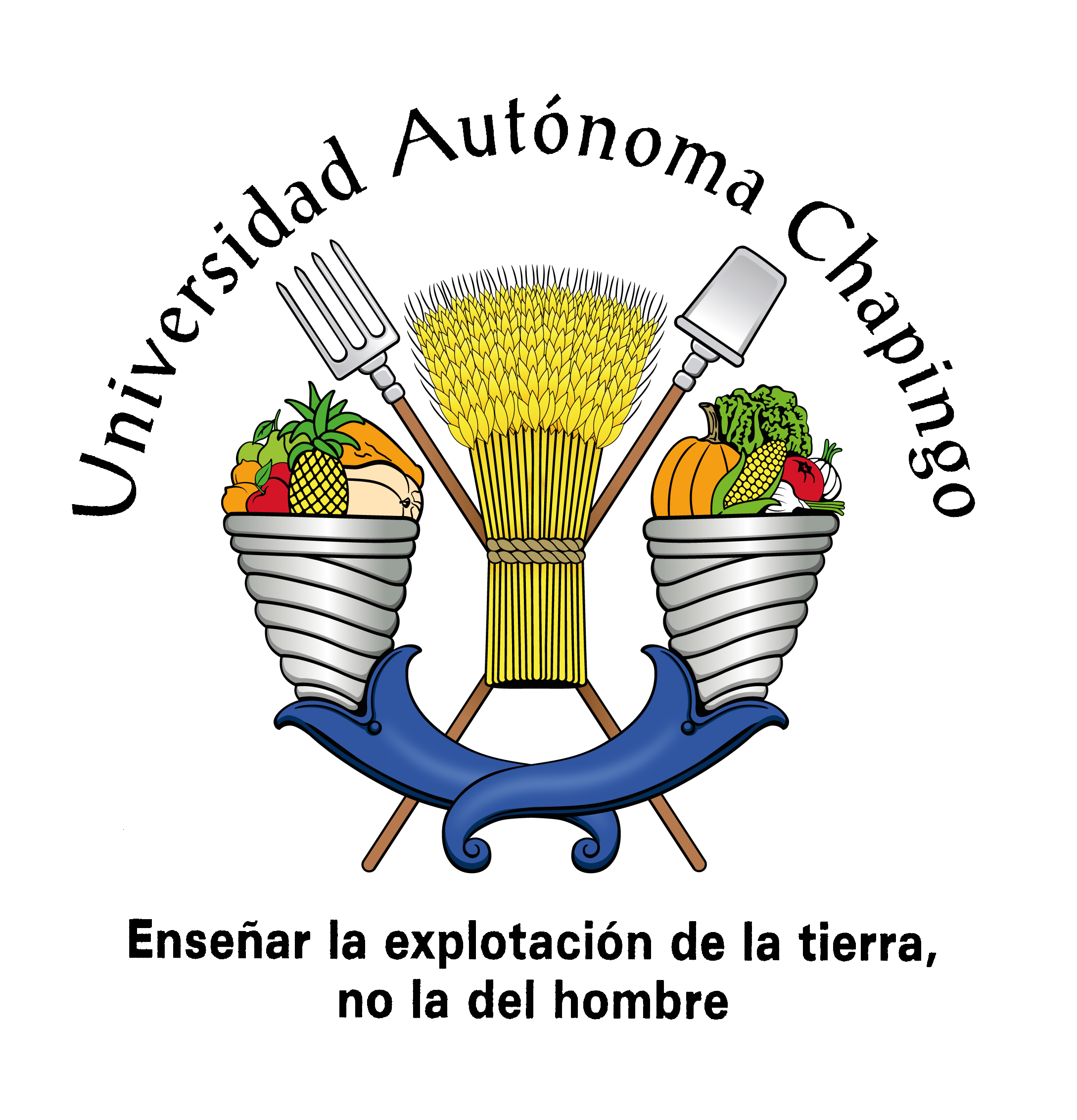 Escudo no oficial de la Universidad Autónoma Chapingo (UACh)